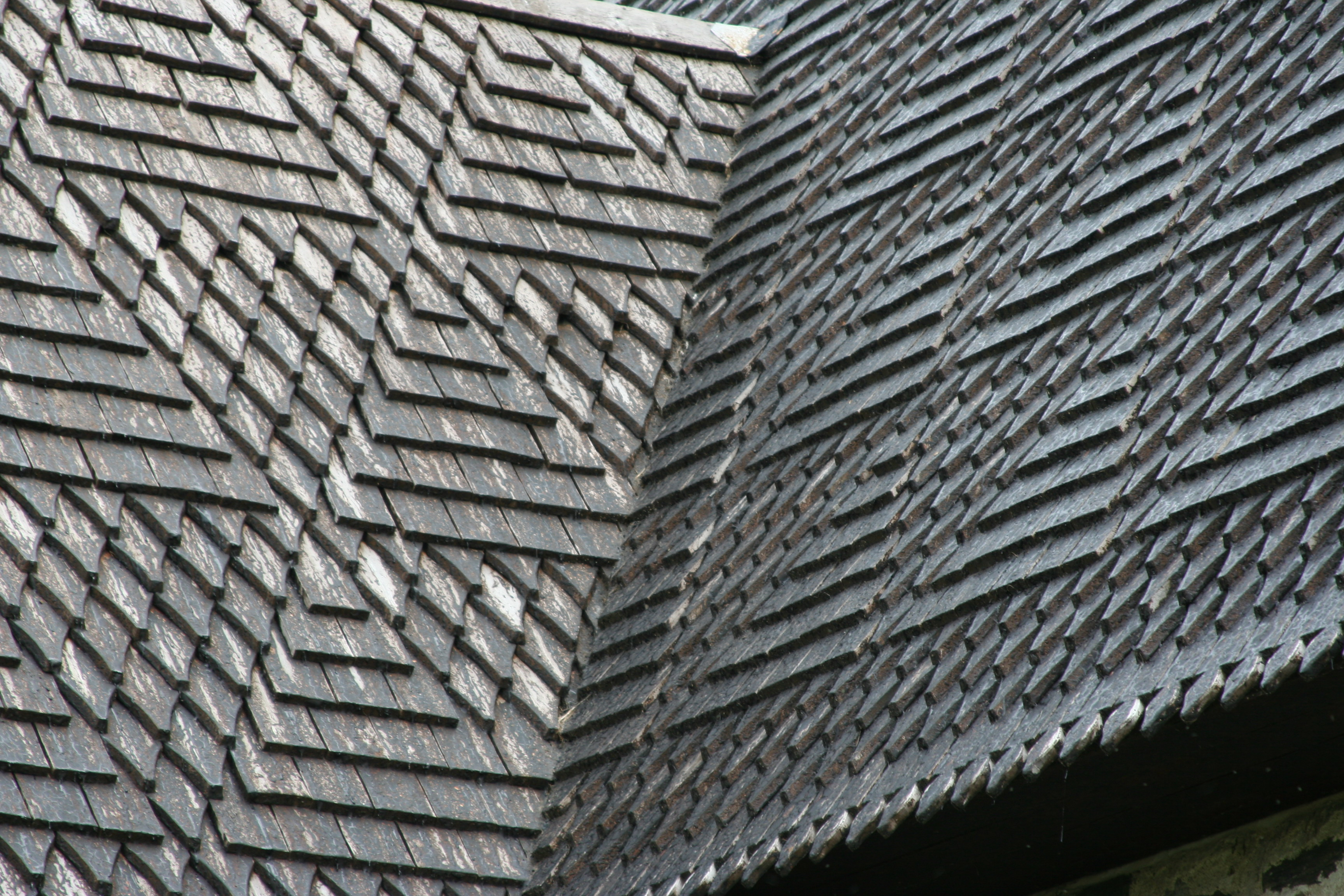 Shingle roof of St. Olaf's Church in Tyrvää, Sastamala, Finland. The original triangle patterning was made by Antti Piimänen in 1748. These shingles are hand carved in 1999–2000 by a voluntary work party.